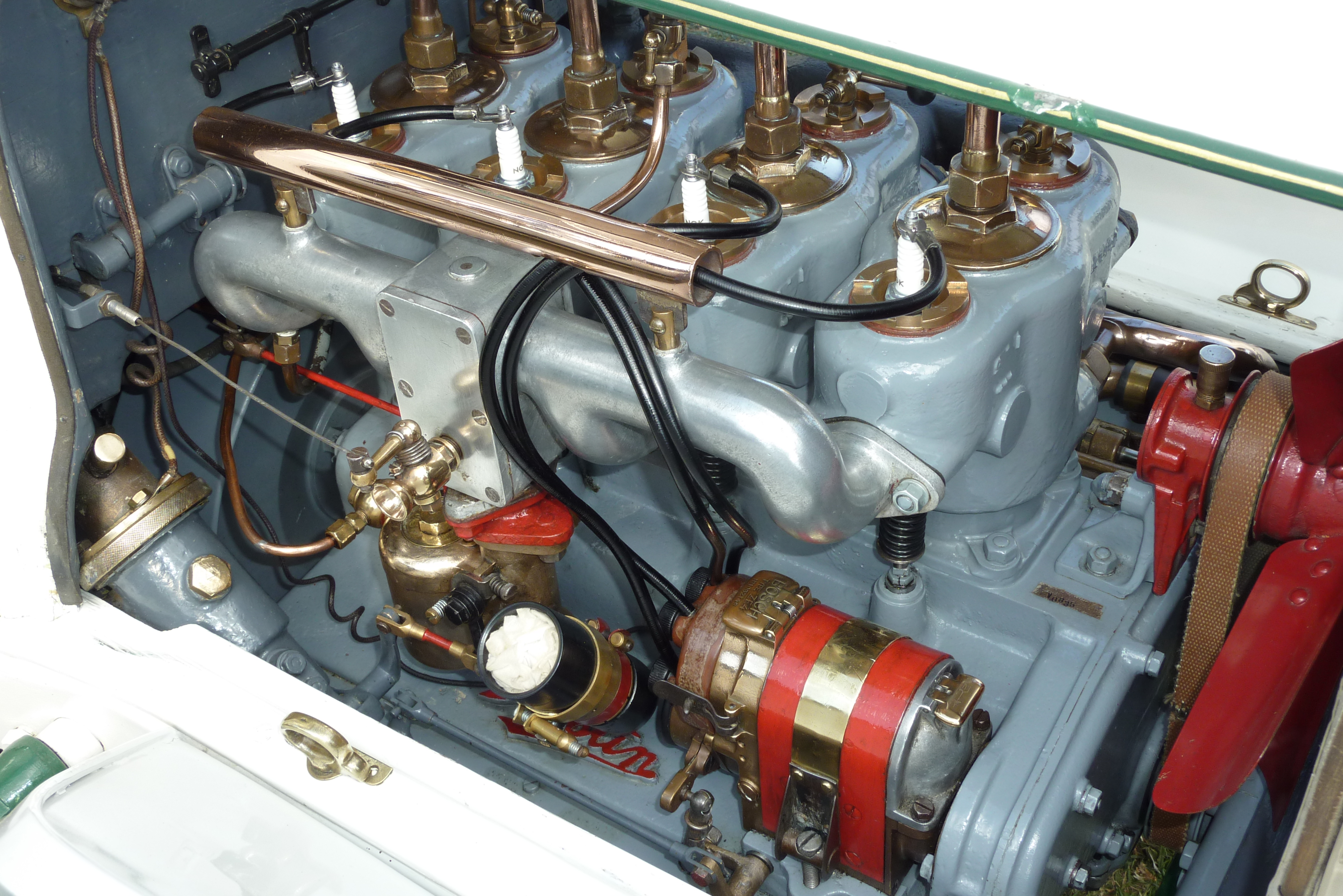 1913 Austin '10' Engine